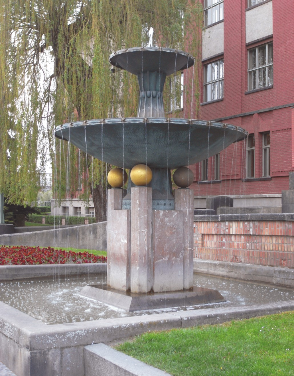 Hradec Králové - Museum of Eastern Bohemia